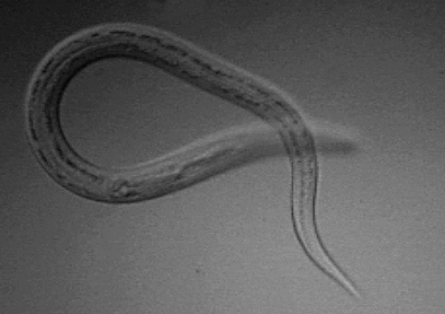 Necator Americanus (hookworm) L3 infectious larva at 100x magnification without any stains or special optics.